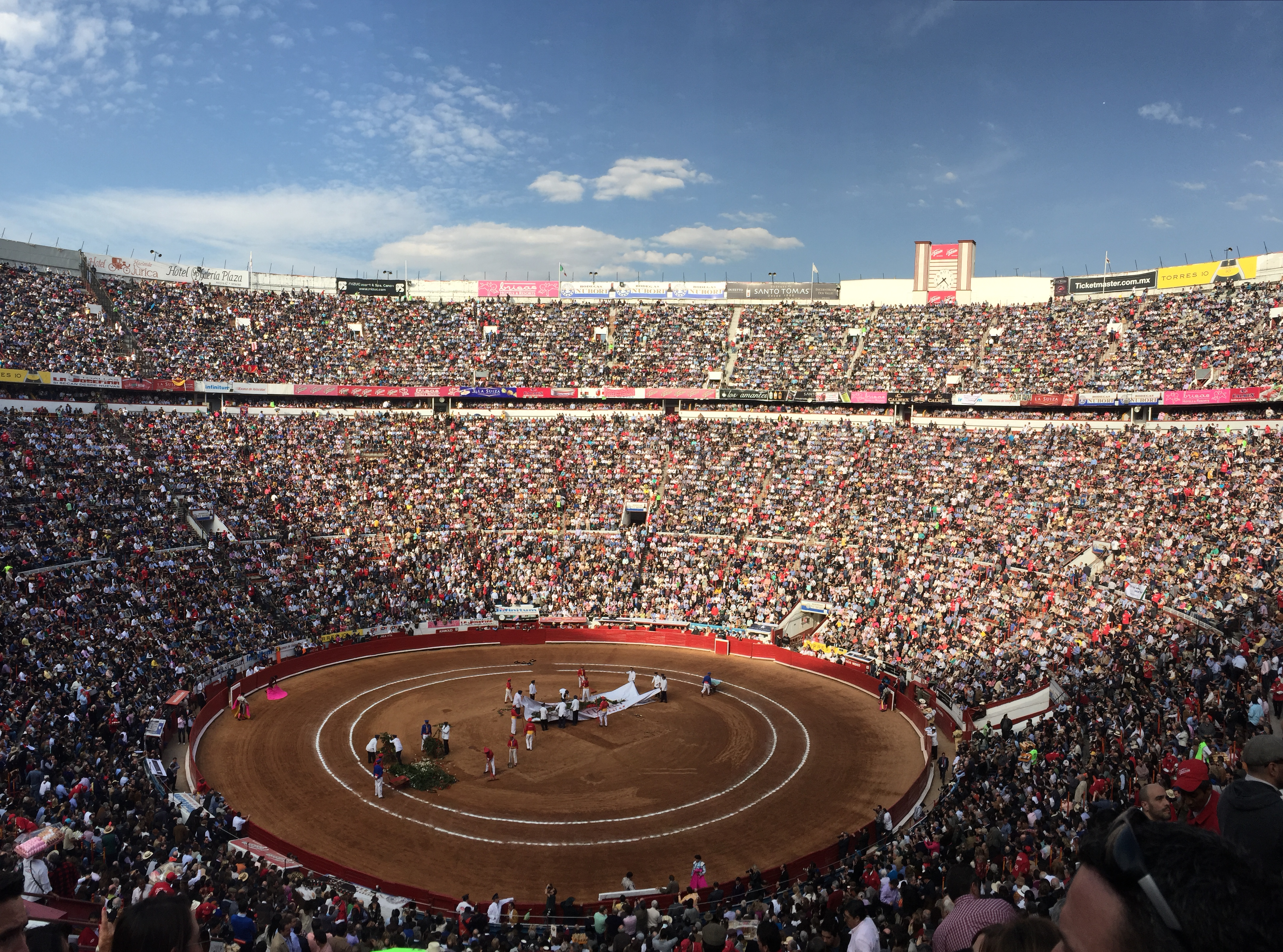 Plaza de Toros México at its full capacity during bullfight in 2016